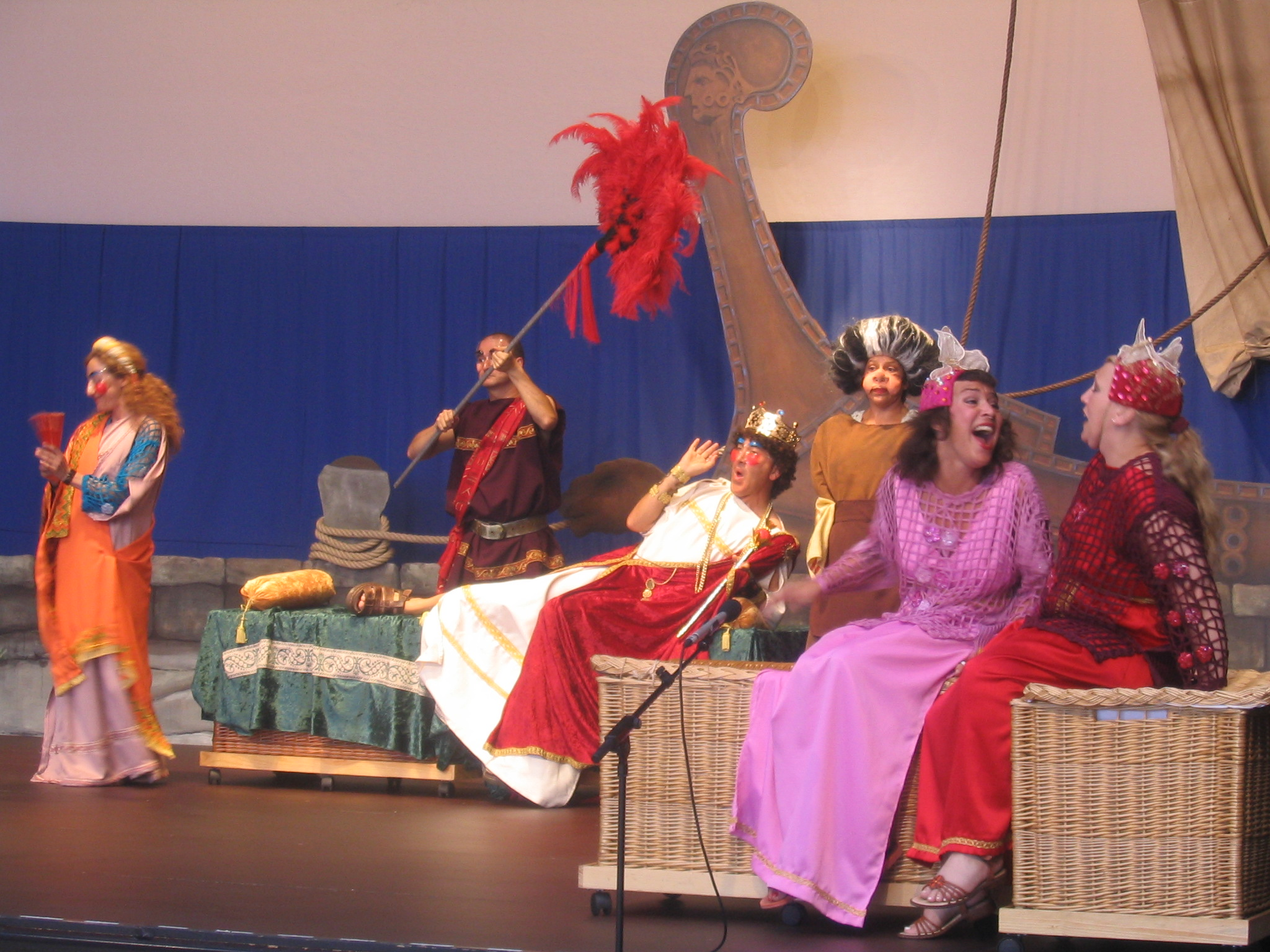 2004 Universal Forum of Cultures